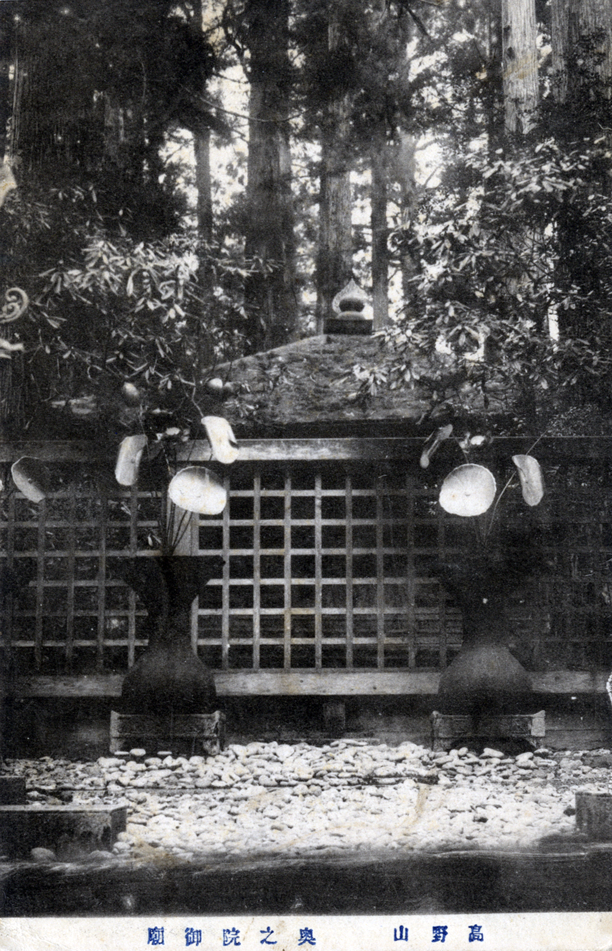 Japanese postcard showing the mausoleum of Kūkai, founder of Shingon Buddhism, at the Okunoin, Mount Koya (Japan)